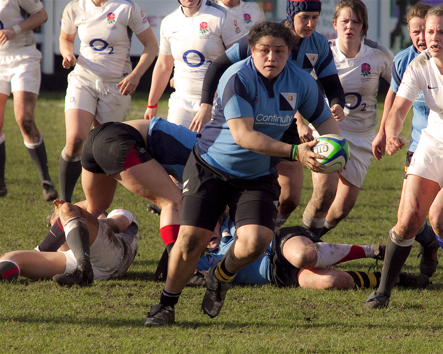 Stephanie Te Ohaere Fox (New Zealand and Wasps) playing for Nomads against England "A"